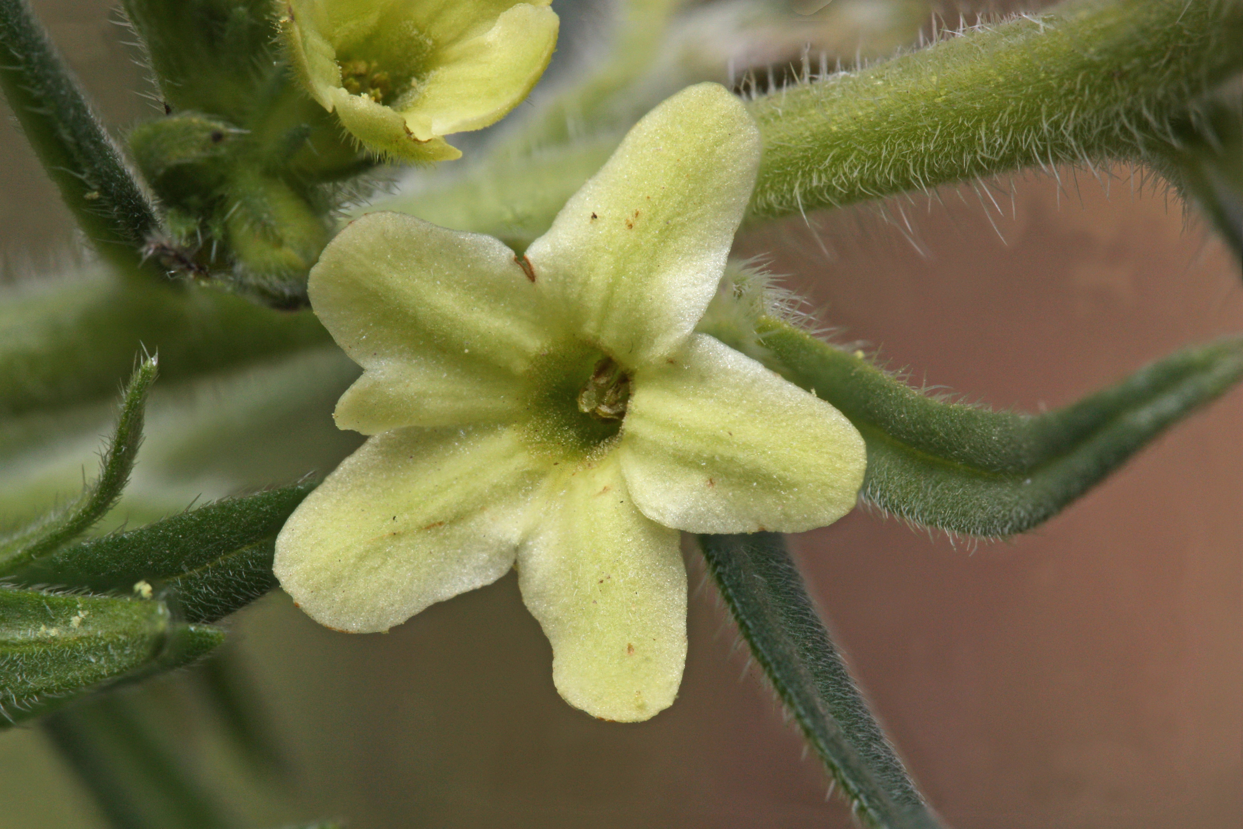 Western Stoneseed, Columbian Puccoon, Western Gromwell; focus stack from other versions (Helicon Focus)